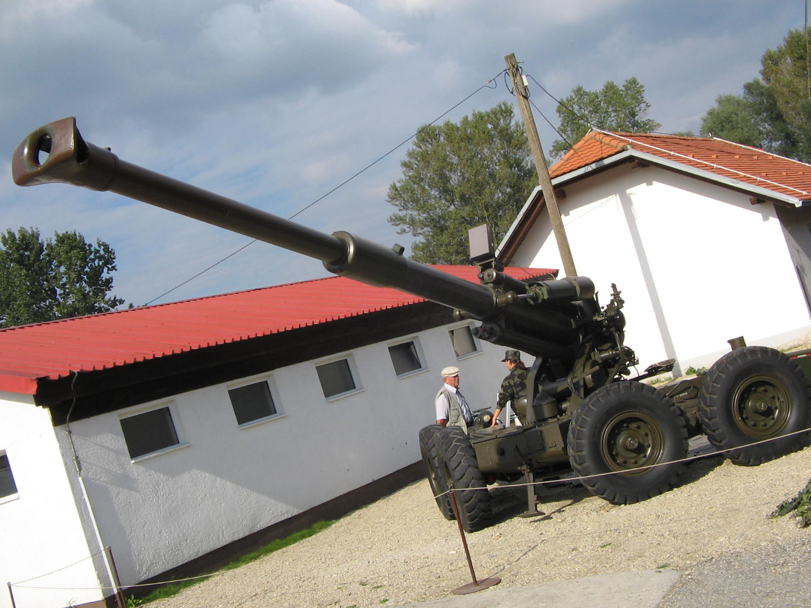 Cannon-howitzer 155/45 mm TN90 (Slovenian Armed Forces).